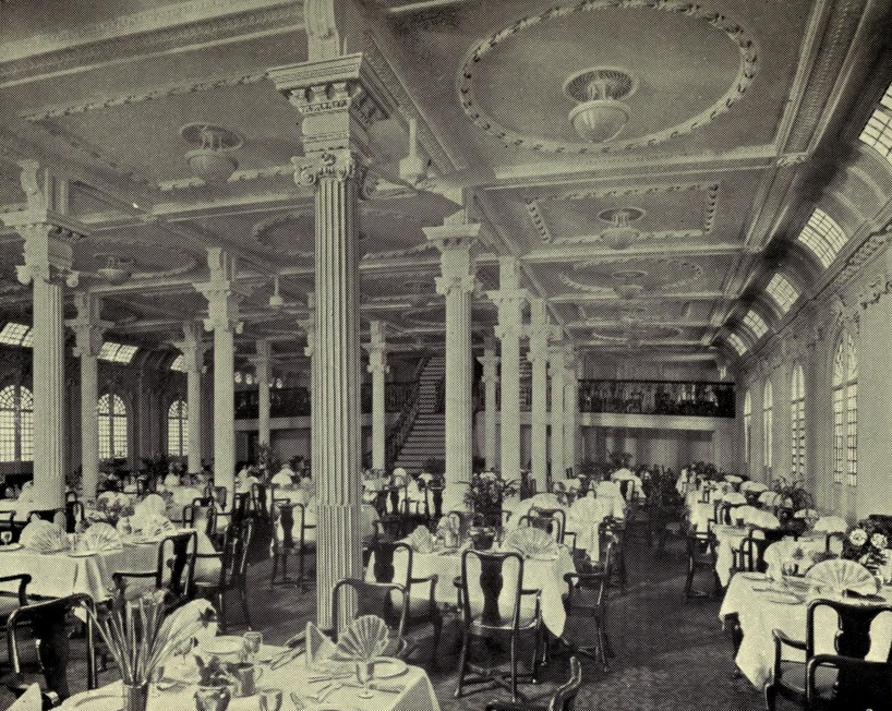 Dining saloon aboard the Royal Mail Steam Packet Co passenger ship Arcadian in 1913. She was sunk by a U-boat in 1917 while serving as a troop ship.